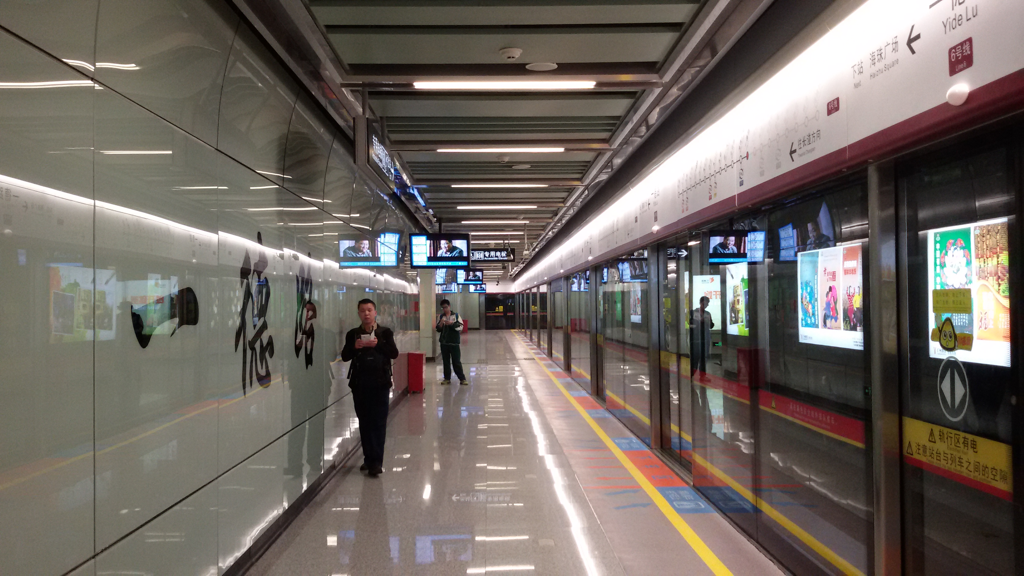 Station Platform for Yide Lu Station in Guangzhou Metro.